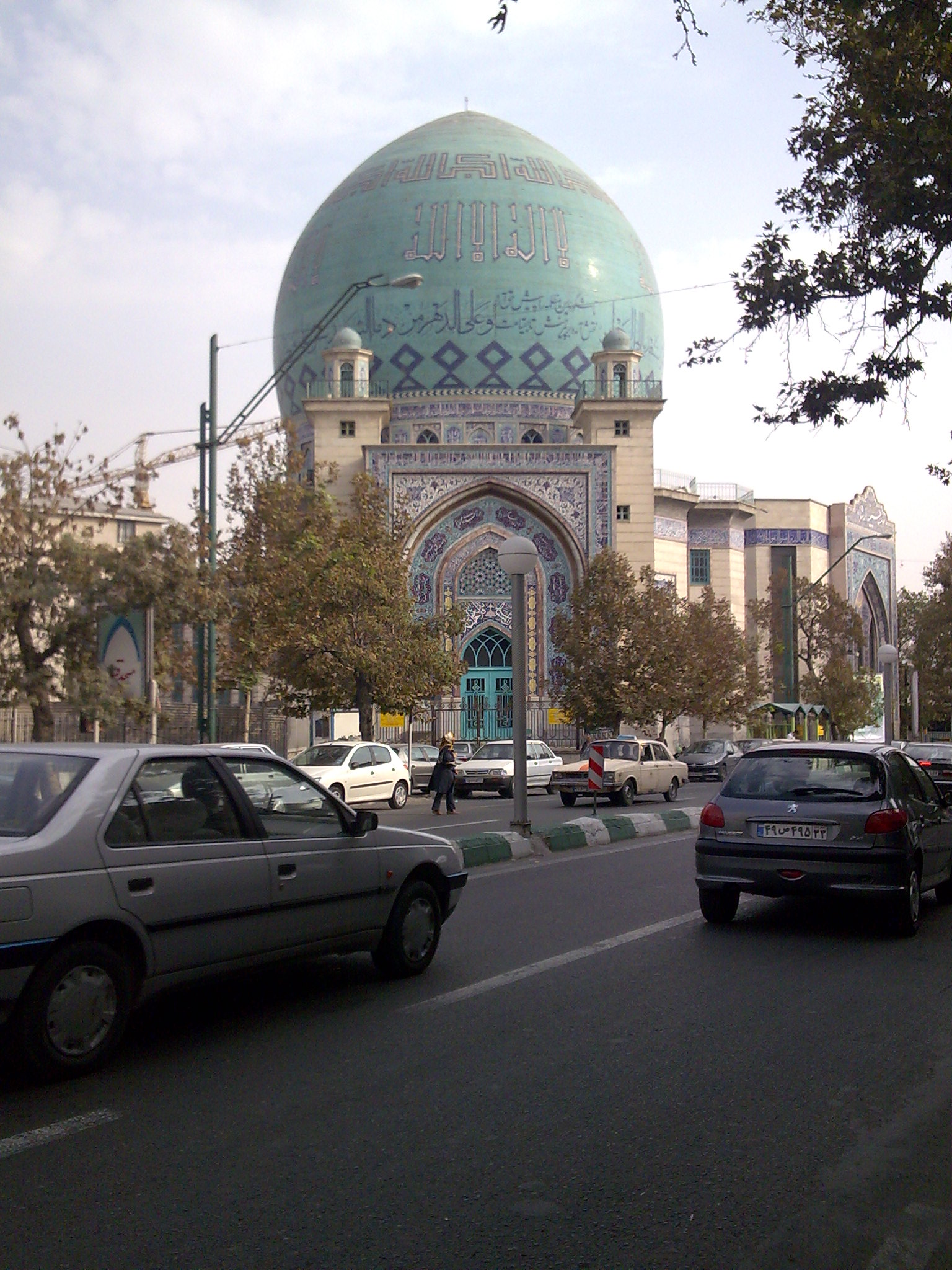 Hosseinieh Ershad, located in Dr.Shariati street, Tehran, Iran